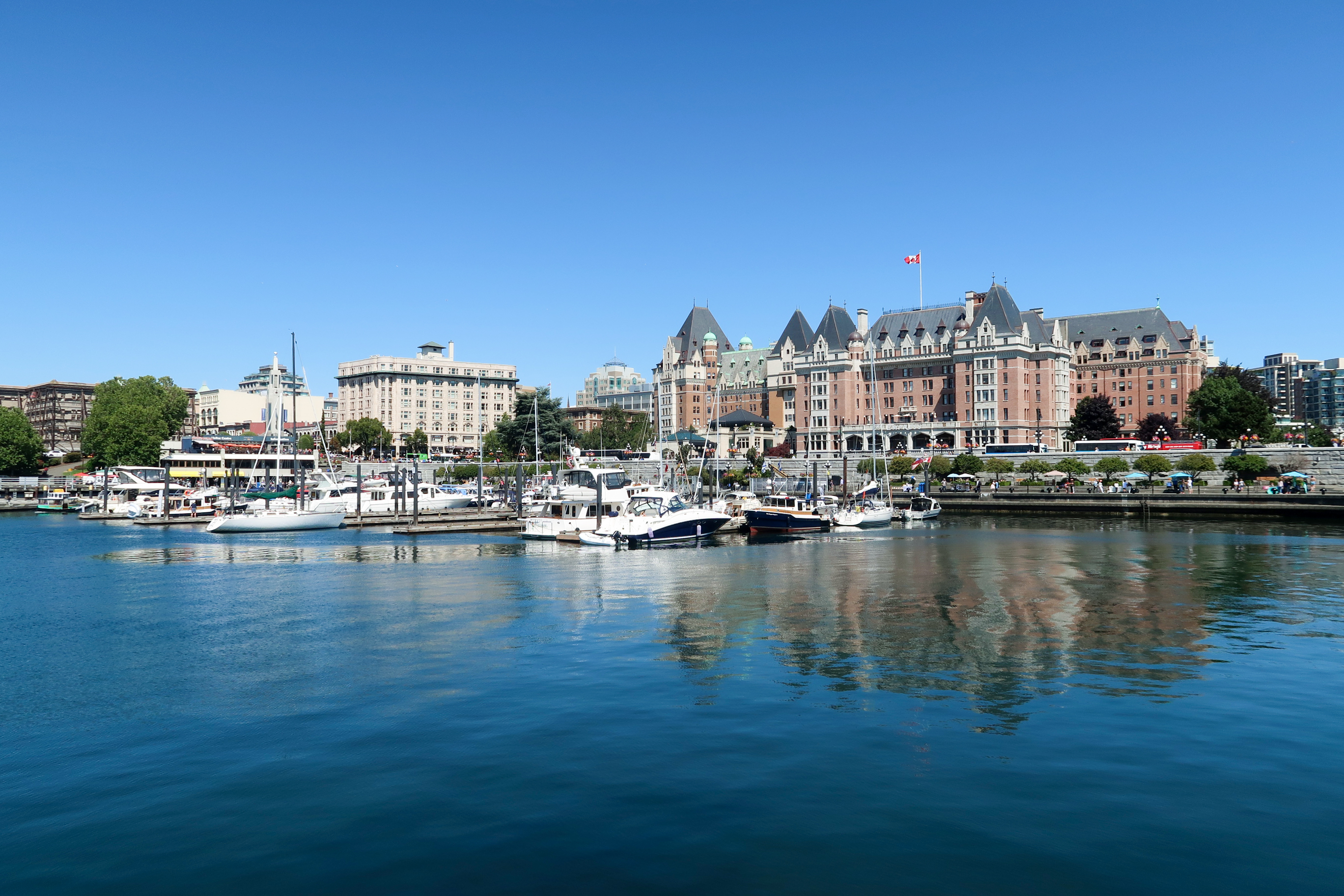 Fairmont Empress Victoria Harbour view